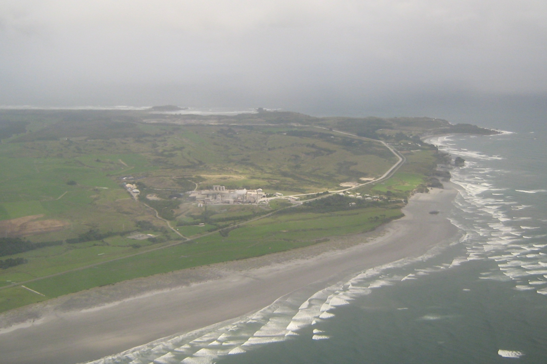 The Holcim cement plant in Westport, New Zealand. Cape Foulwind in the west living up to its name.